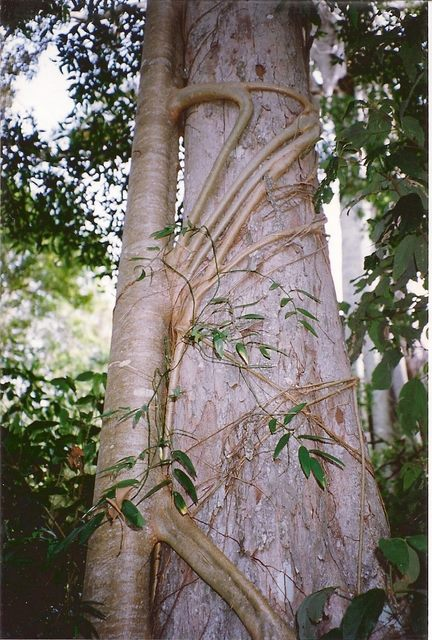 Strangler Fig (probably F.macrophylla) and Wombat Berry vine on Native Elm, Richmond River, near Kyogle Australia